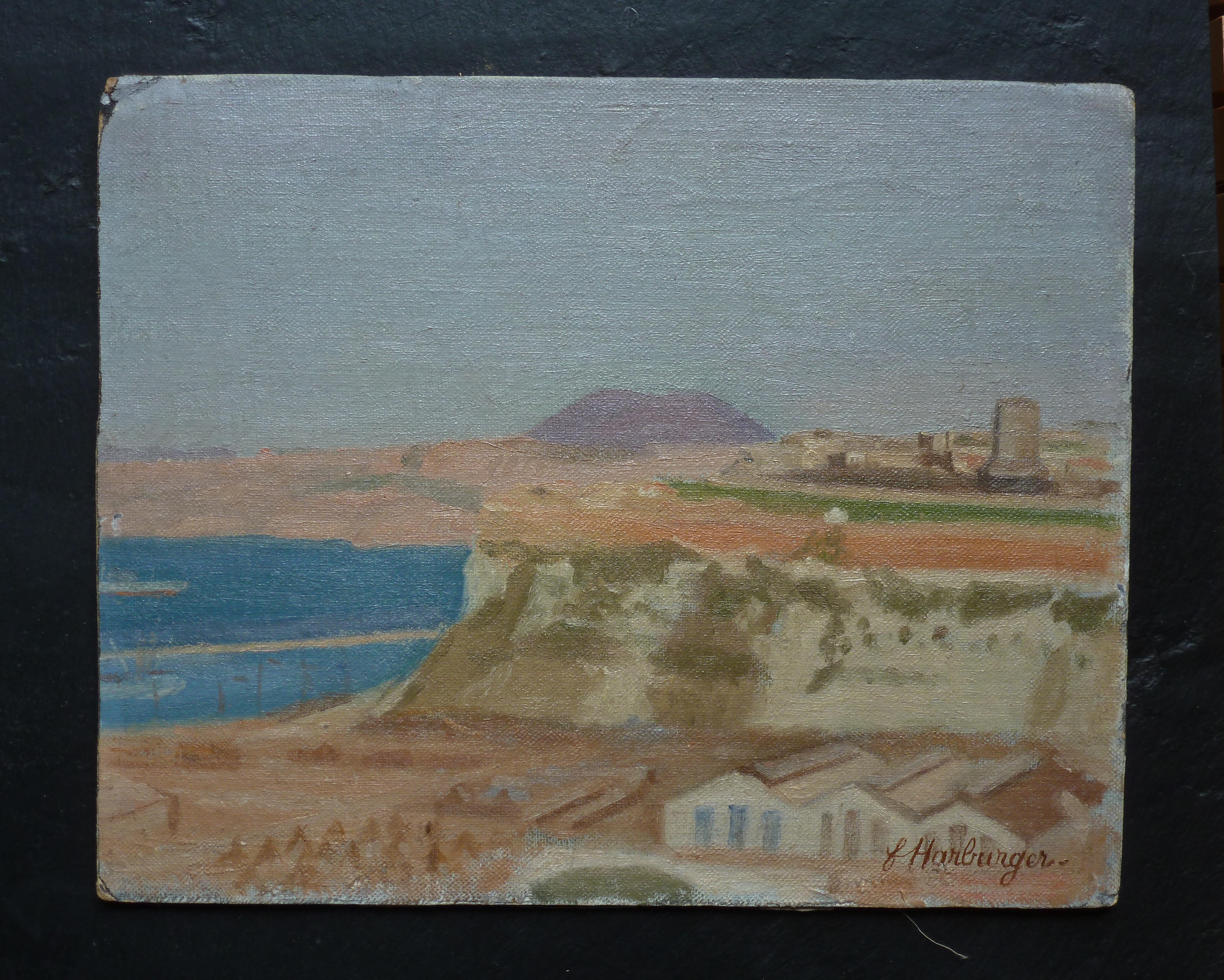 Oil on cardboard, 22 x 27 cm. Private collection.